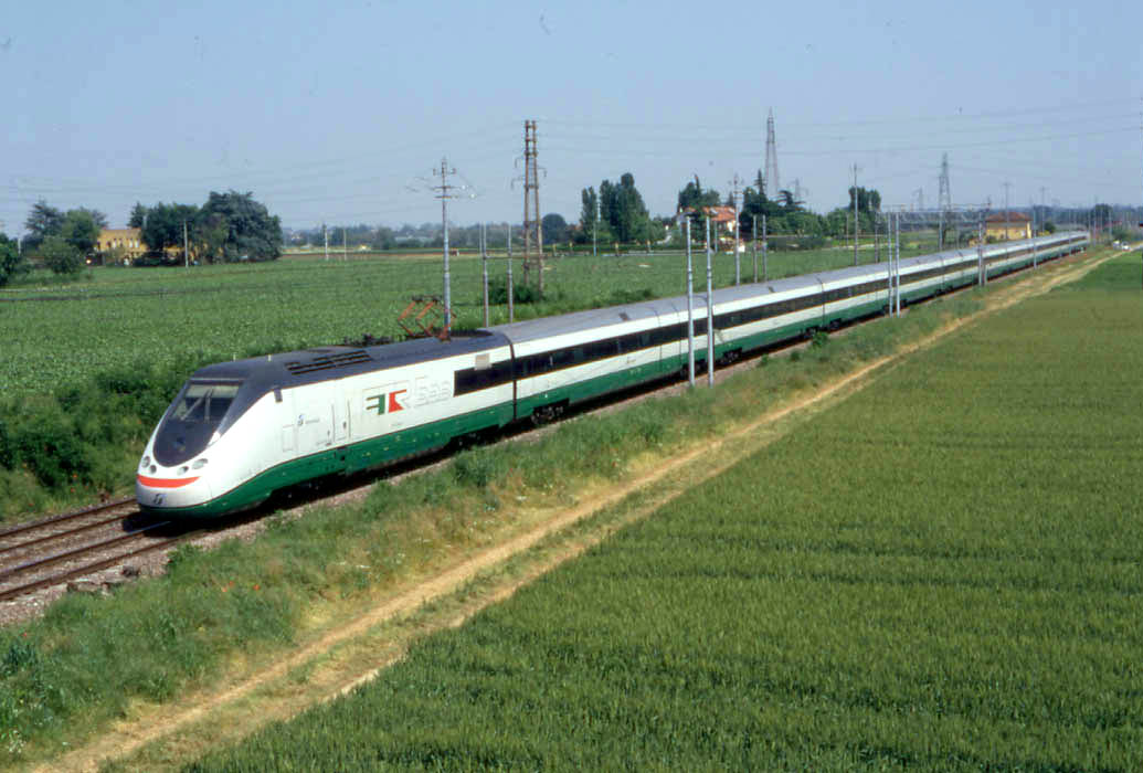 ETR 500 near Imola.